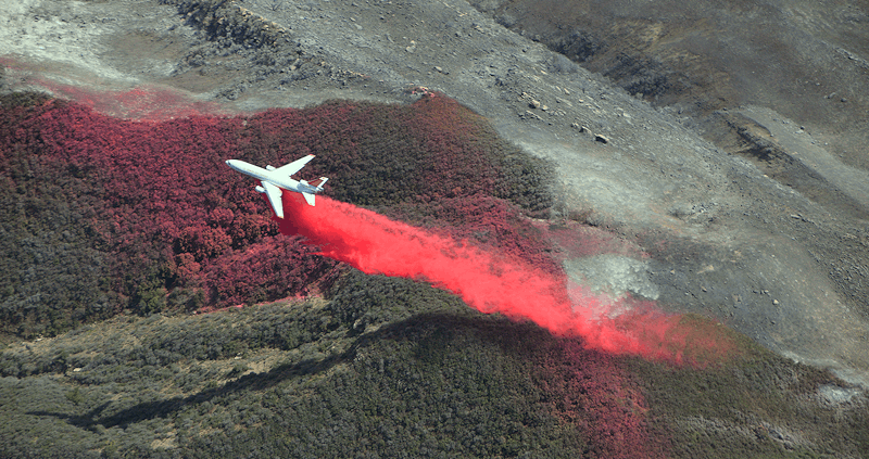 Aerial: DC-10 PhosChek drop on Sherpa Fire in Santa Barbara County, CA on June 19, 2016.